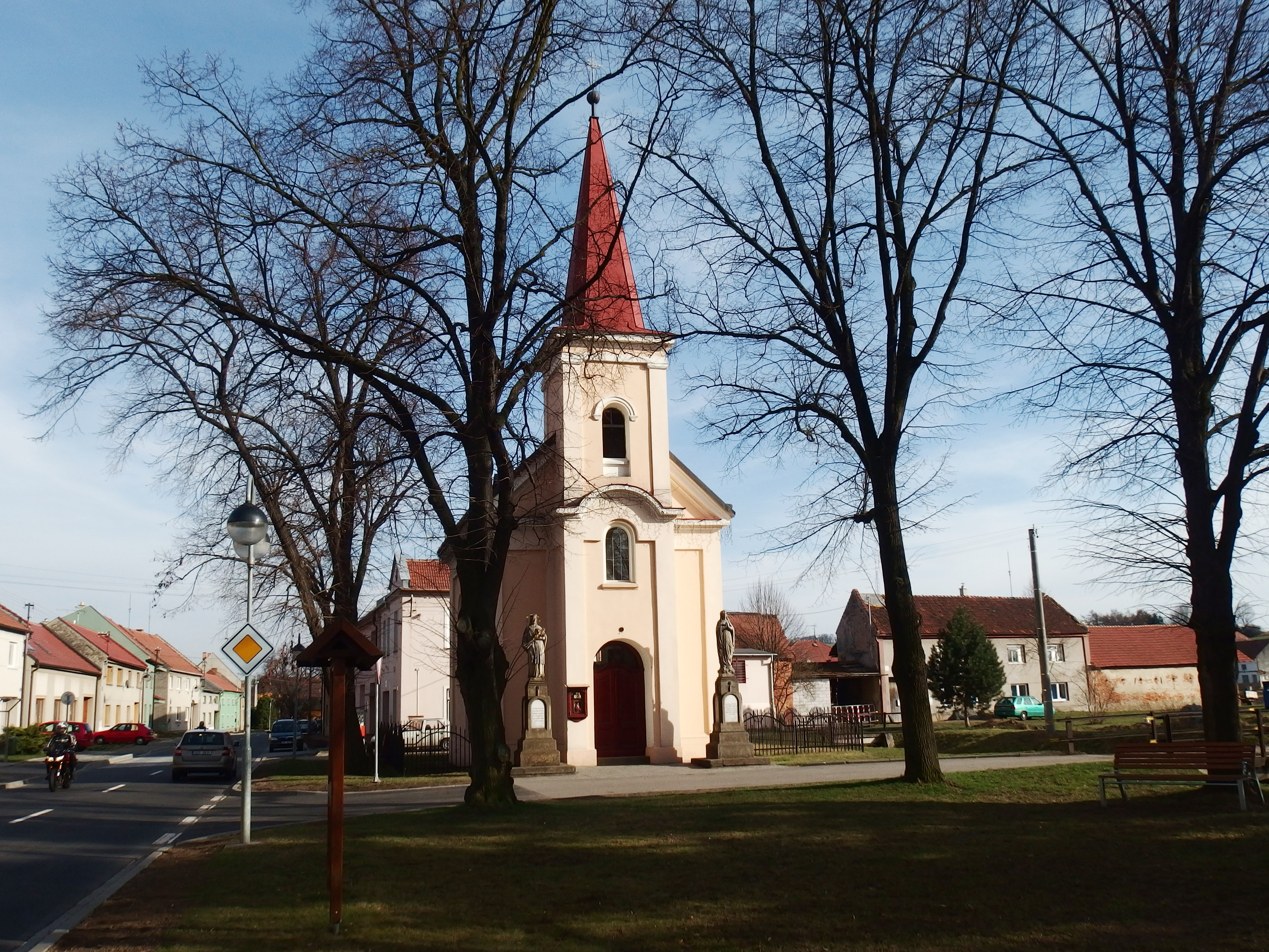 Vranovice-Kelčice, Prostějov District, Czech Republic, part Kelčice.